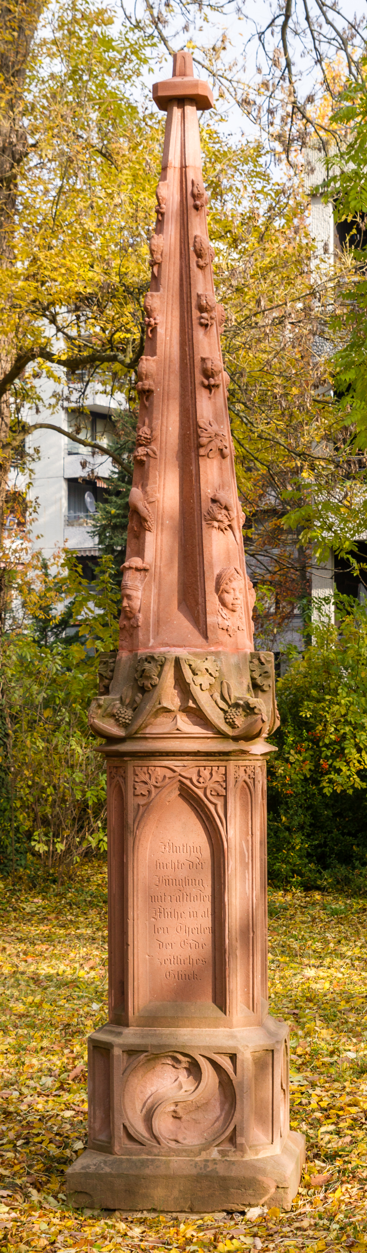 This is a photograph of an architectural monument.It is on the list of cultural monuments of Bad Bergzabern Designation: Grave monuments Construction time: 19th century Description: Grabmal für den Bergzaberer Forscher und Weltreisenden Johann Heinrich Christoph Bürger (1775–1842), genannt die „Würschmitt-Pyramide“, gefertigt von Bernhard Würschmitt Tomb Caroline Franziska Frieder née Flimm (first half of the 19th century), classicist sandstone stele with relief. Tomb Conrad Manderscheid (†1865), late classicistic stele with a relief (handshake). Tomb Johann Heinrich Christoph Bürger (†1842), neo-Gothic tower-like stele. Tomb Andreas Raab (†1841), neo-Gothic stele with a relief, strongly weathered. Tomb Stephan Friedrich Umpfenbach (†1842), weathered neo-Gothic stele. Place: Municipality Bad Bergzabern, Collective municipality Bad Bergzabern, District Südliche Weinstraße, Rhineland-Palatinate, Germany Location: Friedhofstraße 'Old cemetery' Ort: Gemeinde Bad Bergzabern, Verbandsgemeinde Bad Bergzabern, Landkreis Südliche Weinstraße, Rhineland-Palatinate, Germany Lage: Friedhofstraße "Alter Friedhof"